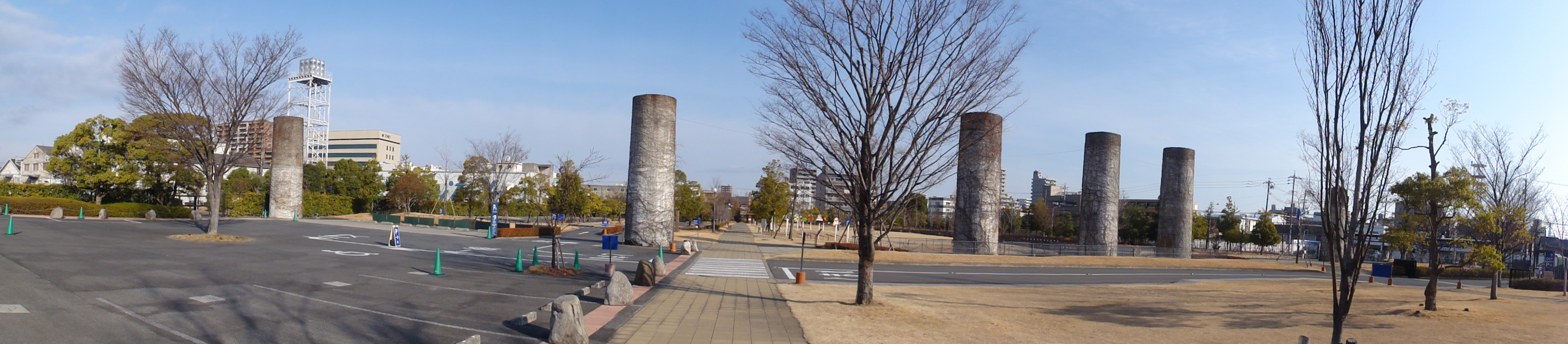 2011-01-23 sight seeing NAGOYA. Walk around Noritake Garden.